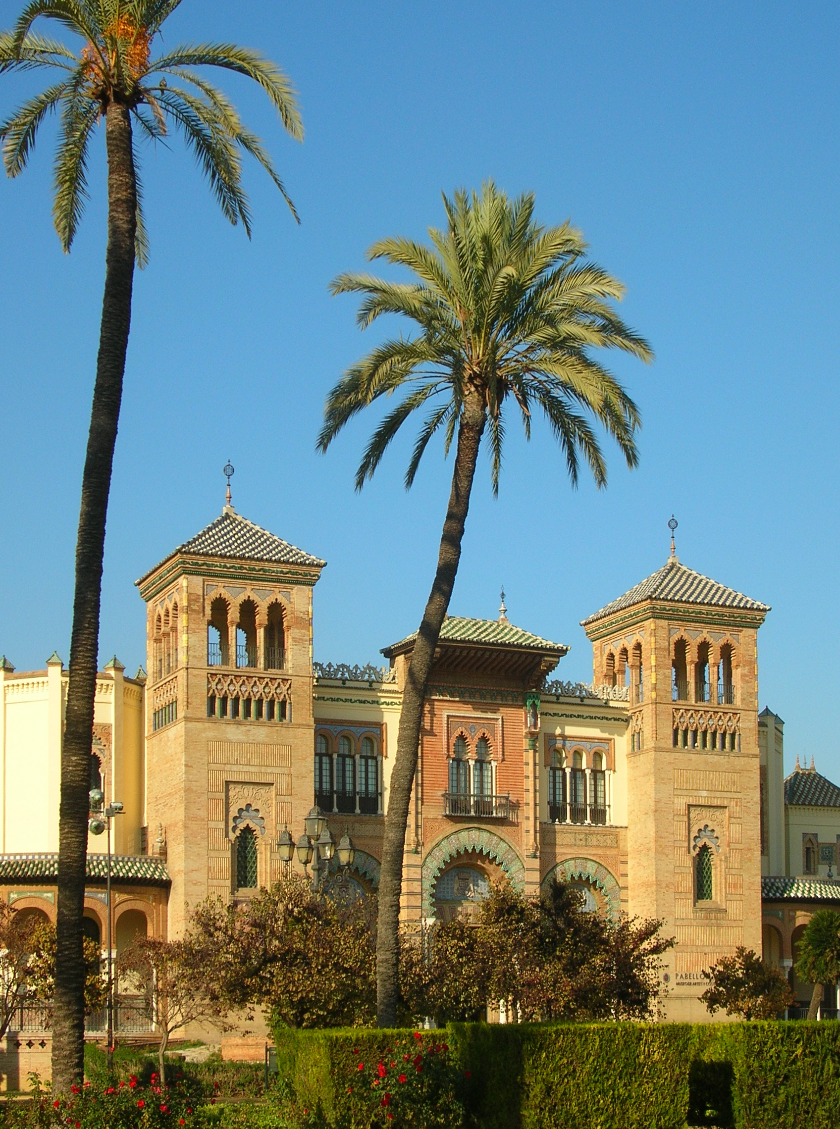 Mudejar pavilion of the Ibero-American Exposition of 1929 (Sevilla, Spain)